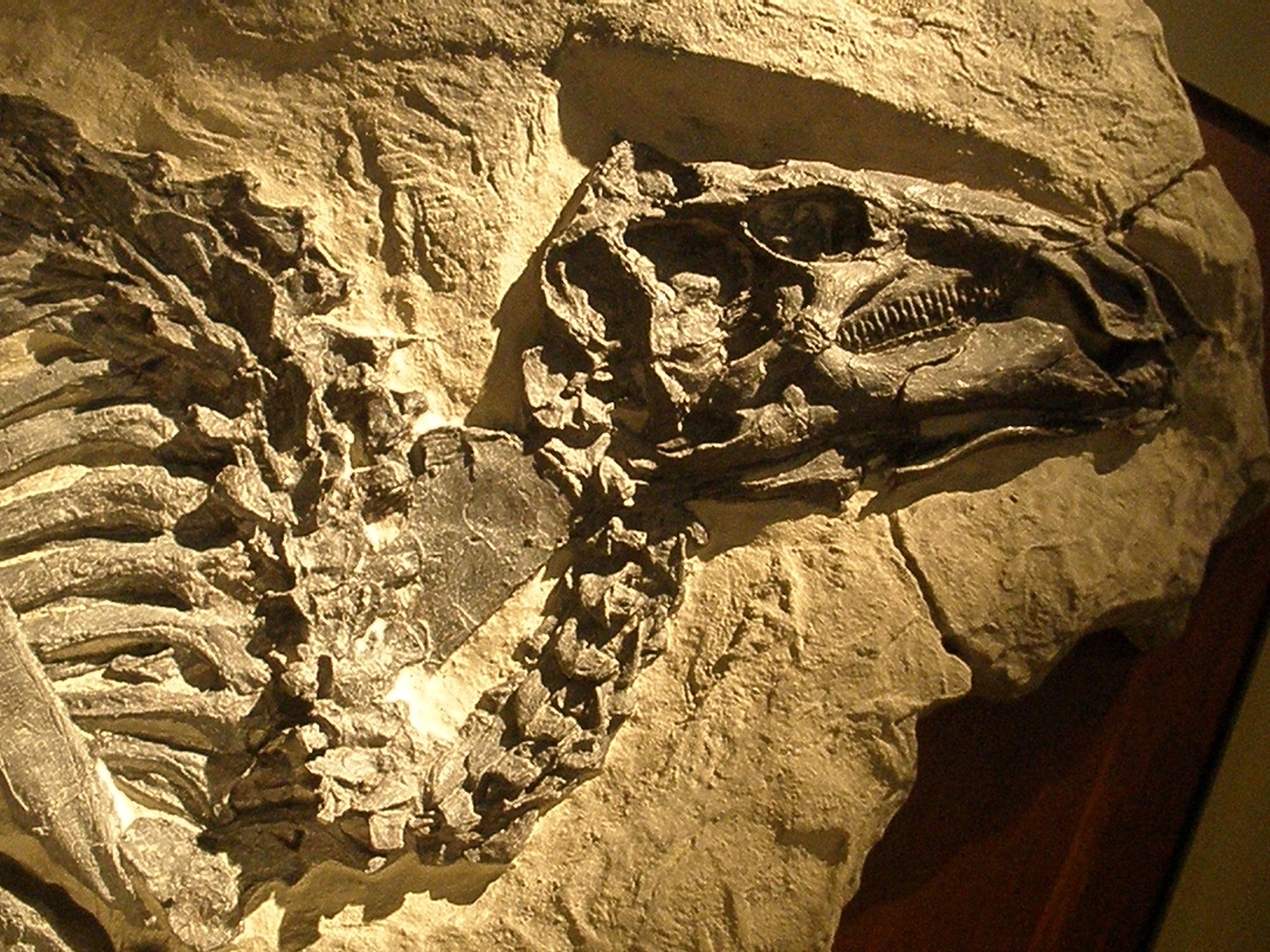 Fossil of Tethyshadros insularis, an extinct hadrosaur